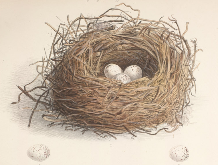 Eggs and nest of Laysan Finch (Telespiza cantans, synonym Telespiza flavissima)